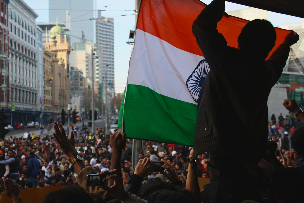 Thousands of Indian students blocked off Swanston Street and Flinders Street for hours, protesting against what they say is violence targeted at Indian students.